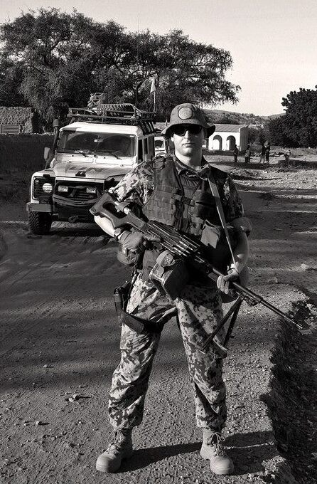 Finnish army peacekeeper lcpl M. J. Rantanen armed with PKM machine gun, in the United Nations mission in Central Africa and Chad. Picture taken in Goz Beida, Chad, 2010.